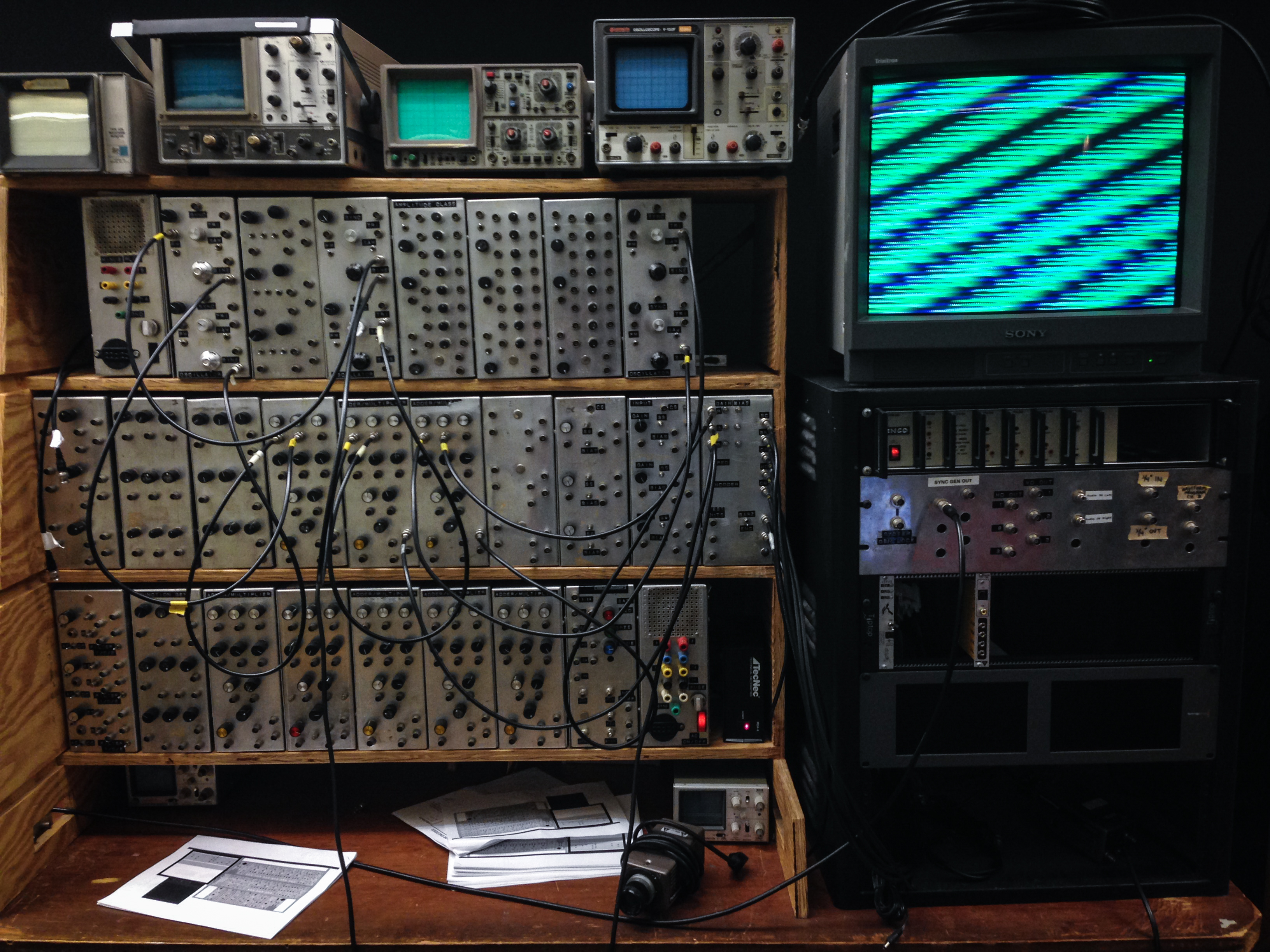 Sandin Image Processor, exhibited at SAIC (School of the Art Institute of Chicago), with complex oscillators patch as written up by James H. Connolly